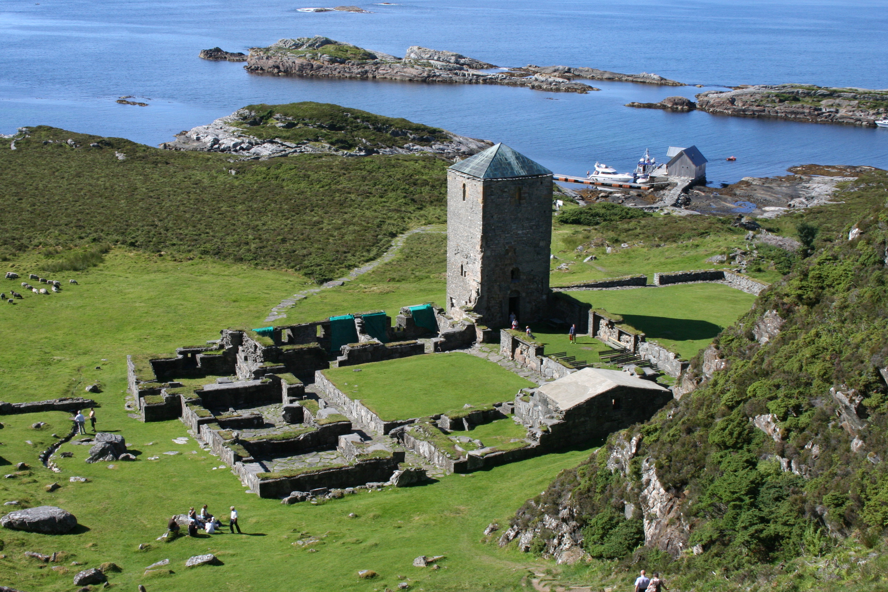 Selje abbey, Nordfjord, Norway